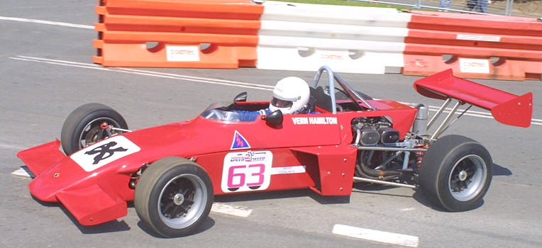 Elfin 623 Formula 3 car driven by Vern Hamilton at 2008 Speed on Tweed